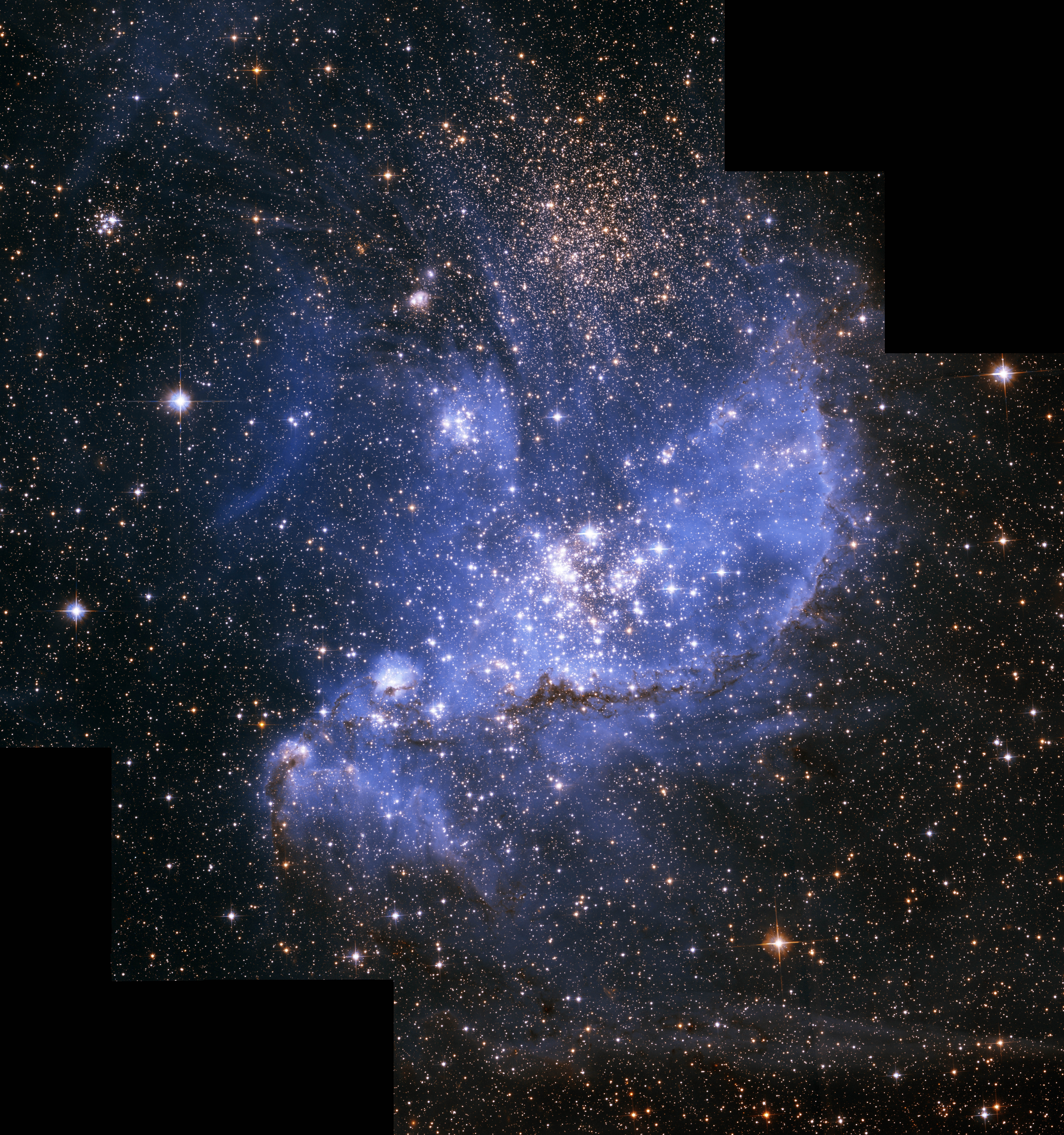 Hubble astronomers have uncovered, for the first time, a population of infant stars in the Milky Way satellite galaxy, the Small Magellanic Cloud (SMC, visible to the naked eye in the southern constellation Tucana), located 210,000 light-years away. Hubble's exquisite sharpness plucked out an underlying population of infant stars embedded in the nebula NGC 346 that are still forming from gravitationally collapsing gas clouds. They have not yet ignited their hydrogen fuel to sustain nuclear fusion. The smallest of these infant stars is only half the mass of our Sun. Although star birth is common within the disk of our galaxy, this smaller companion galaxy is more primeval in that it lacks a large percentage of the heavier elements that are forged in successive generations of stars through nuclear fusion. Fragmentary galaxies like the SMC are considered primitive building blocks of larger galaxies. Most of these types of galaxies existed far away, when the universe was much younger. The SMC offers a unique nearby laboratory for understanding how stars arose in the early universe. Nestled among other starburst regions with the small galaxy, the nebula NGC 346 alone contains more than 2,500 infant stars. The Hubble images, taken with the Advanced Camera for Surveys, identify three stellar populations in the SMC and in the region of the NGC 346 nebula — a total of 70,000 stars. The oldest population is 4.5 billion years, roughly the age of our Sun. The younger population arose only 5 million years ago (about the time Earth's first hominids began to walk on two feet). Lower-mass stars take longer to ignite and become full-fledged stars, so the protostellar population is 5 million years old. Curiously, the infant stars are strung along two intersecting lanes in the nebula, resembling a "T" pattern in the Hubble plot.